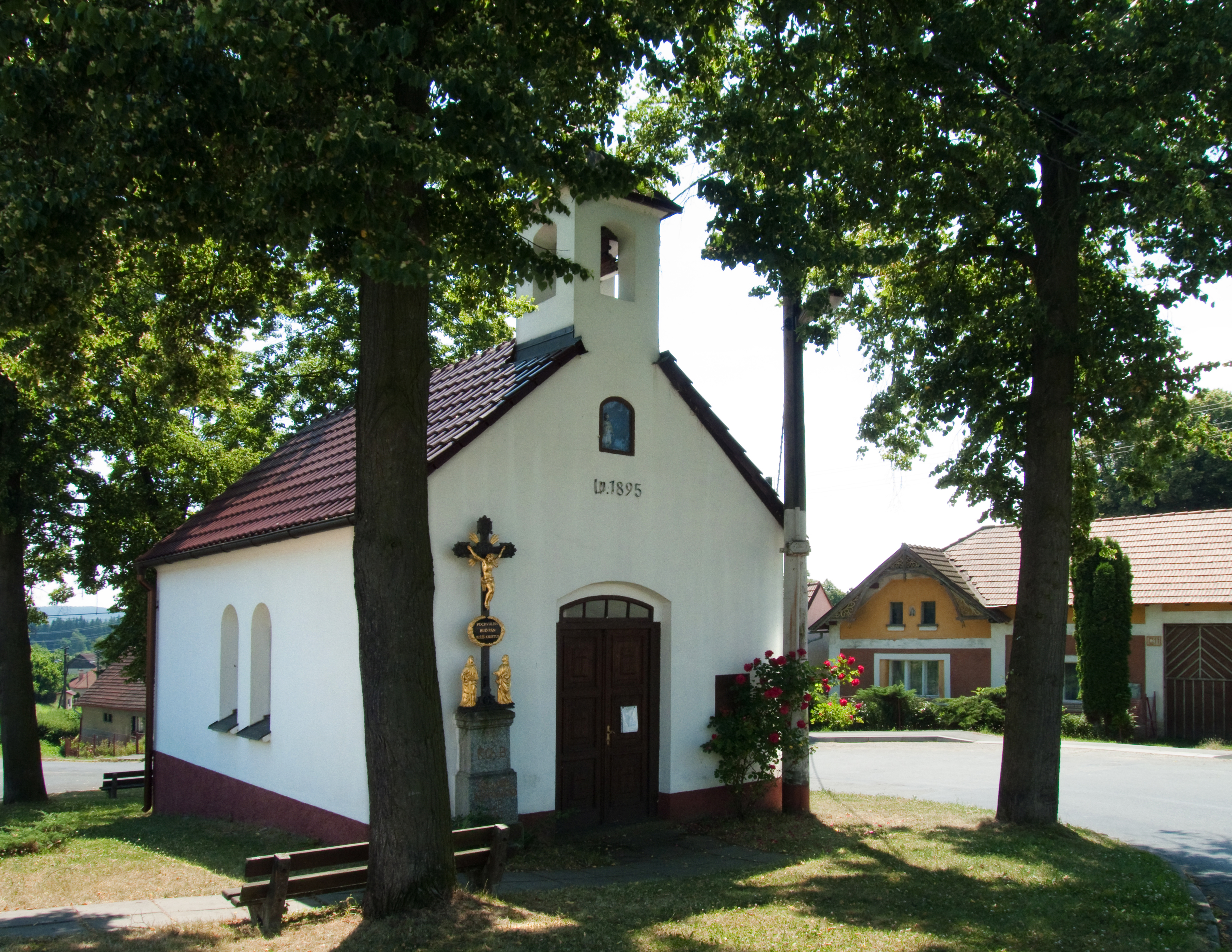 St. Wenceslaus Chapel in the village of Kladruby, Benešov district, Czech Republic from 1895